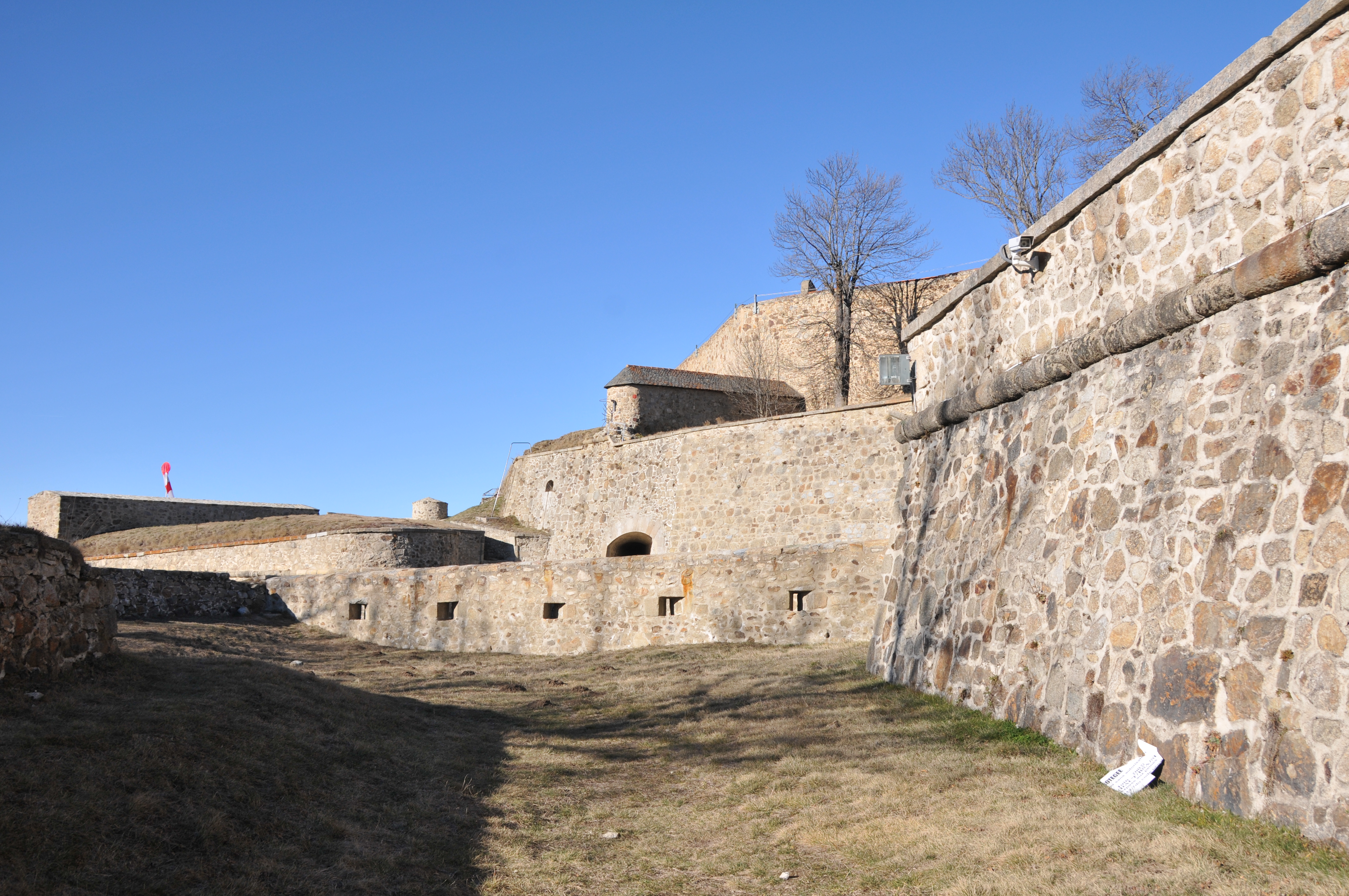 CIUDADELA DE MONT-LOUIS